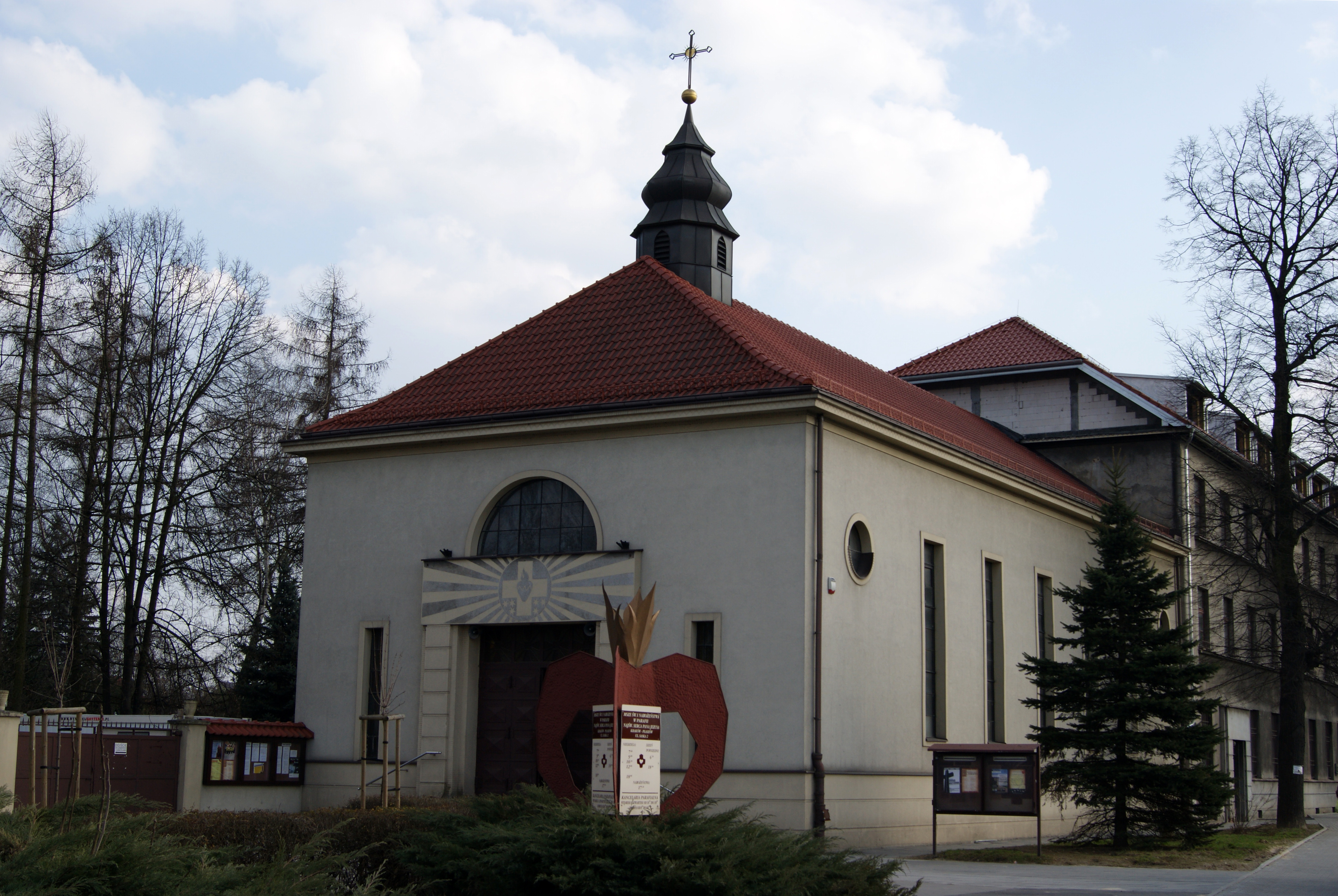 Church of the Sacred Heart of Jesus, 2 Saska street,Plaszow,Krakow,Poland